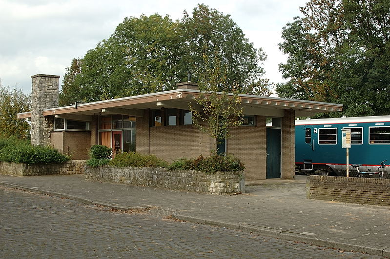 Station Wijlre-Gulpen